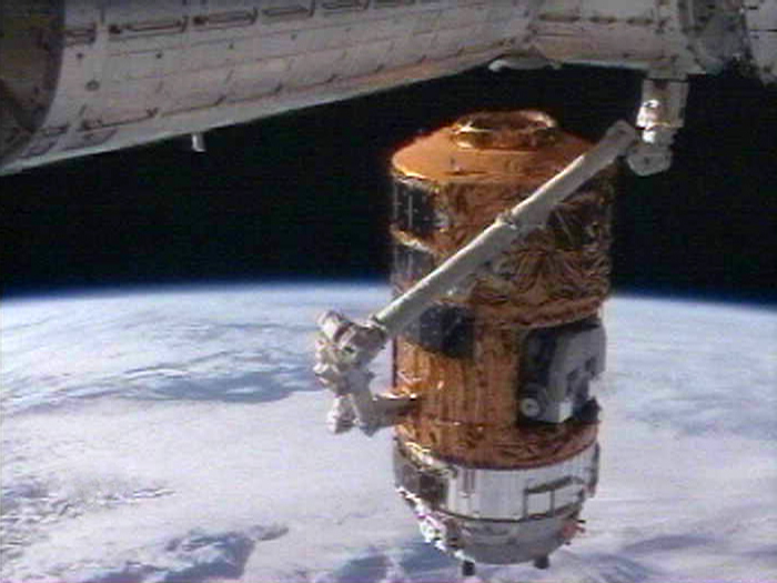 NASA TV screenshot showing HTV-1 during berthing operations at the International Space Station.